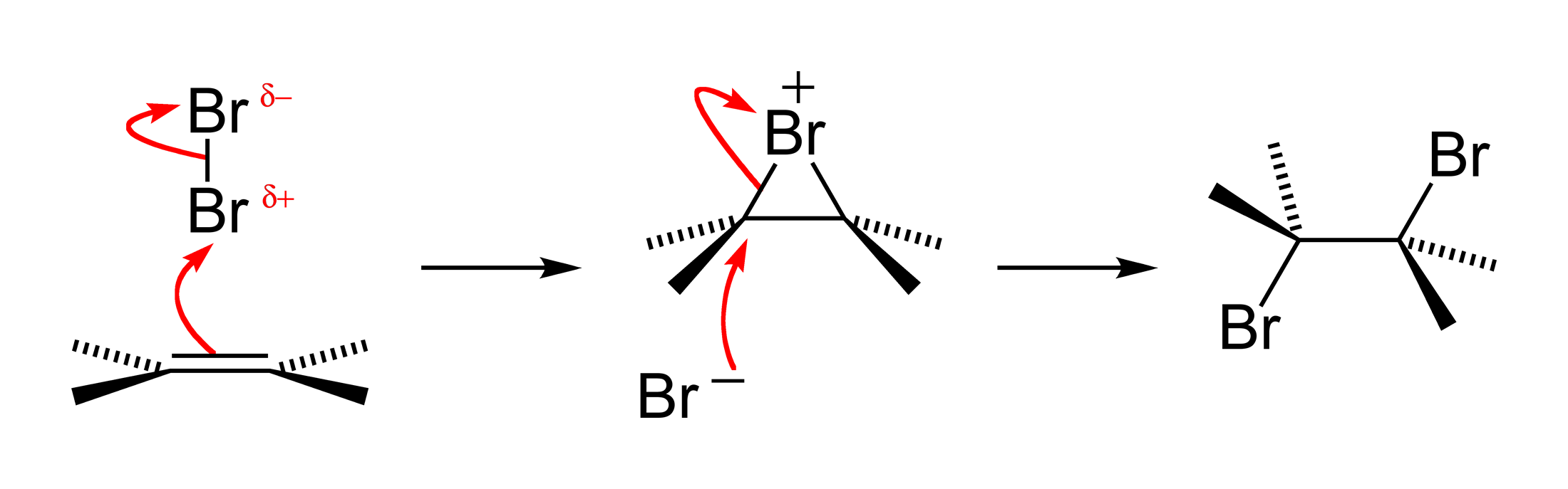 Electrophilic addition of bromine to an alkene: from (2012) Organic Chemistry (2nd ed.), Oxford University Press, pp. 428 ISBN: 978-0-19-927029-3.